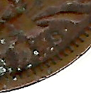 S mint mark on the reverse of a 1908 En:Indian head cent.